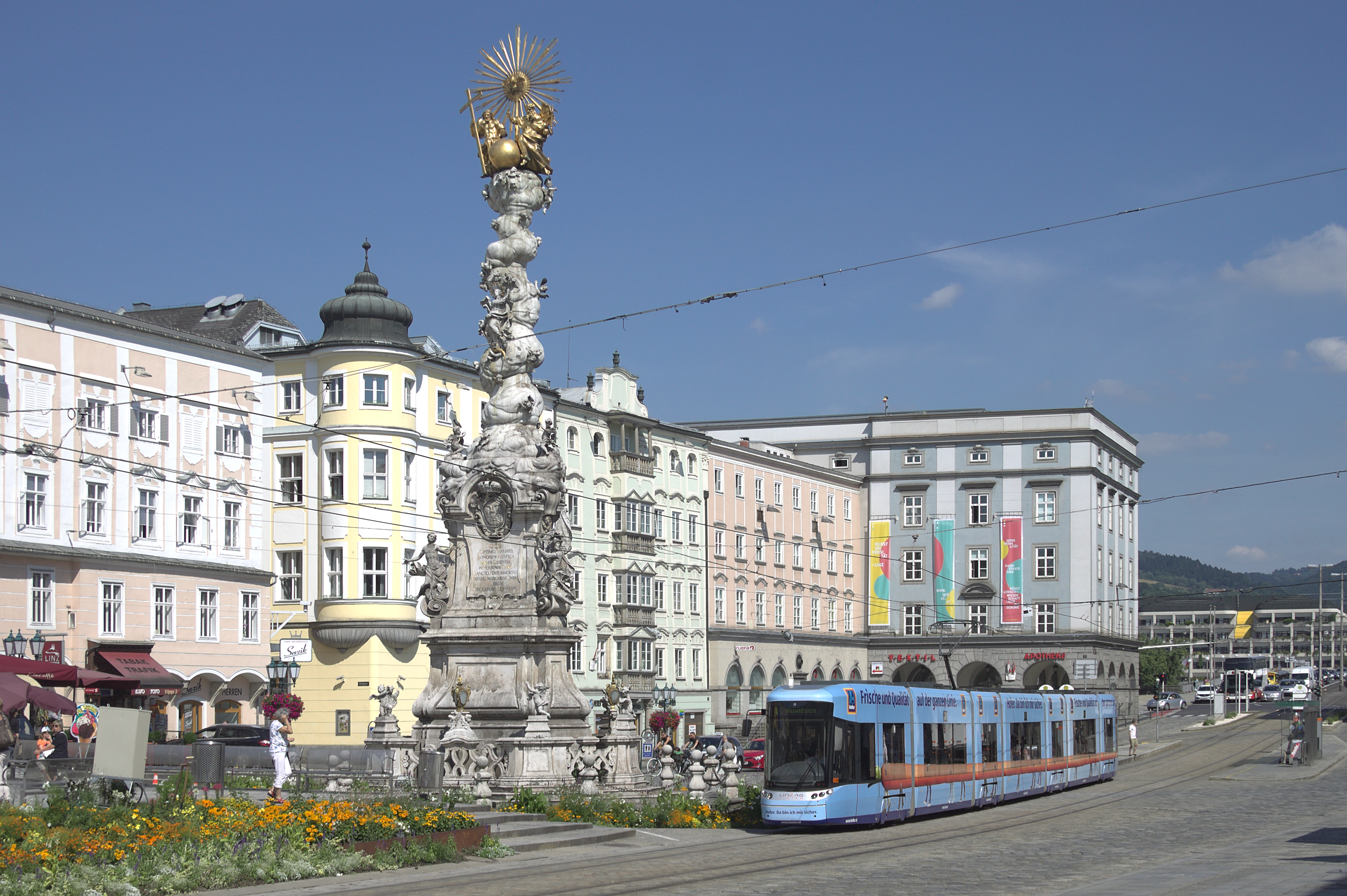 The main square (Hauptplatz) of Linz, with a tram of line 1 and the monument Dreifaltigkeitssäule.